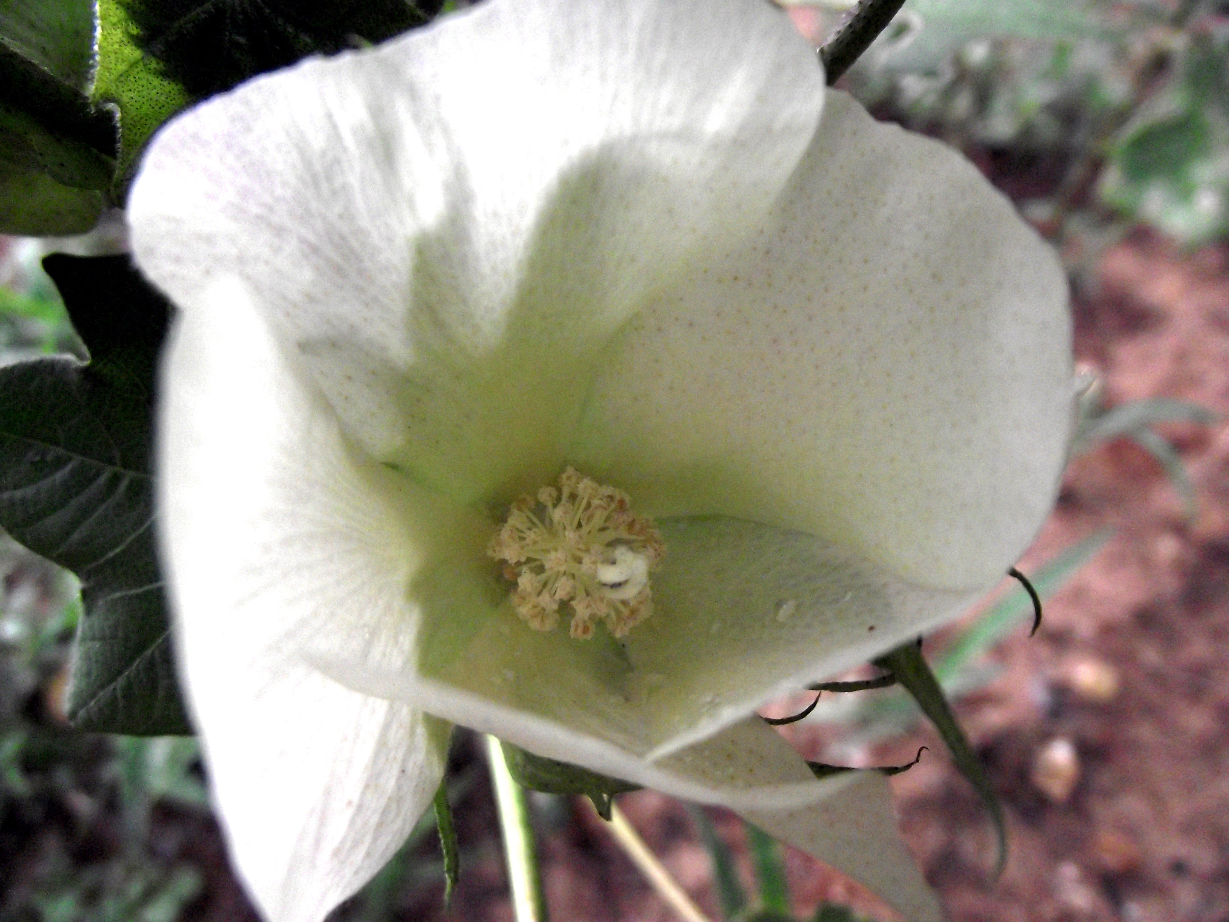 The Head or flower of a cotton plant.